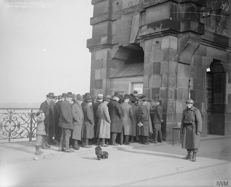 The Spartacist Uprising, January 1919 German civilians waiting to be searched for firearms by Belgian soldiers before being allowed to pass over the Ober-Kassel-Dusseldorf bridge, 2 February 1919.